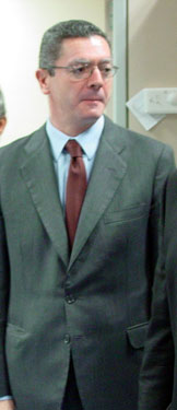 The mayor of Madrid, Alberto Ruiz-Gallardón.